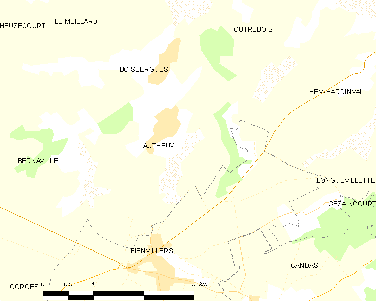 Map of French municipality Autheux